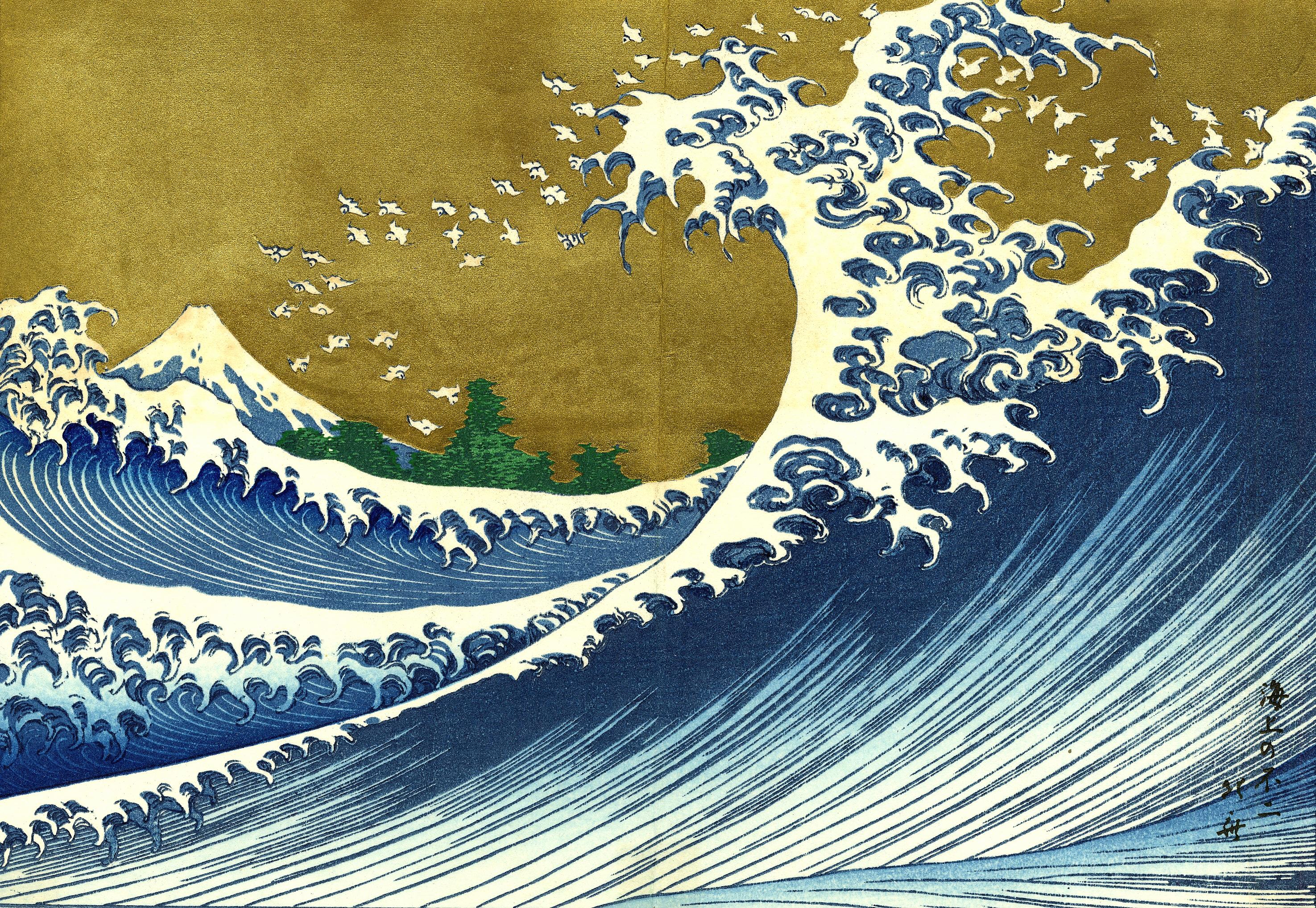 It is a mirrored version of the famous great wave of Kanagawa from the 36 views of the Fuji. There are no boats and the wave crests are birds.